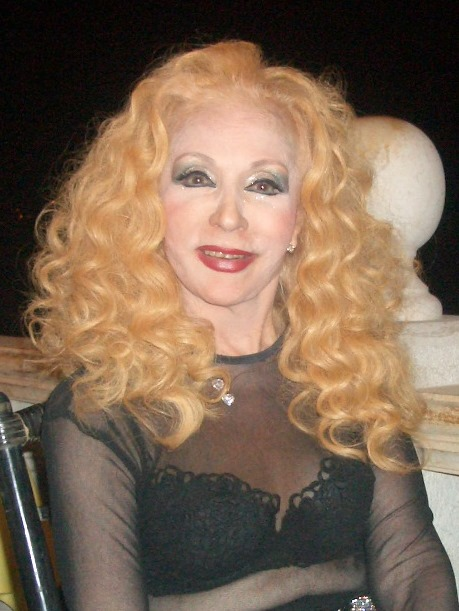 Lebanese singer Sabah seen in a restaurant in August 2007 close to Beirut.